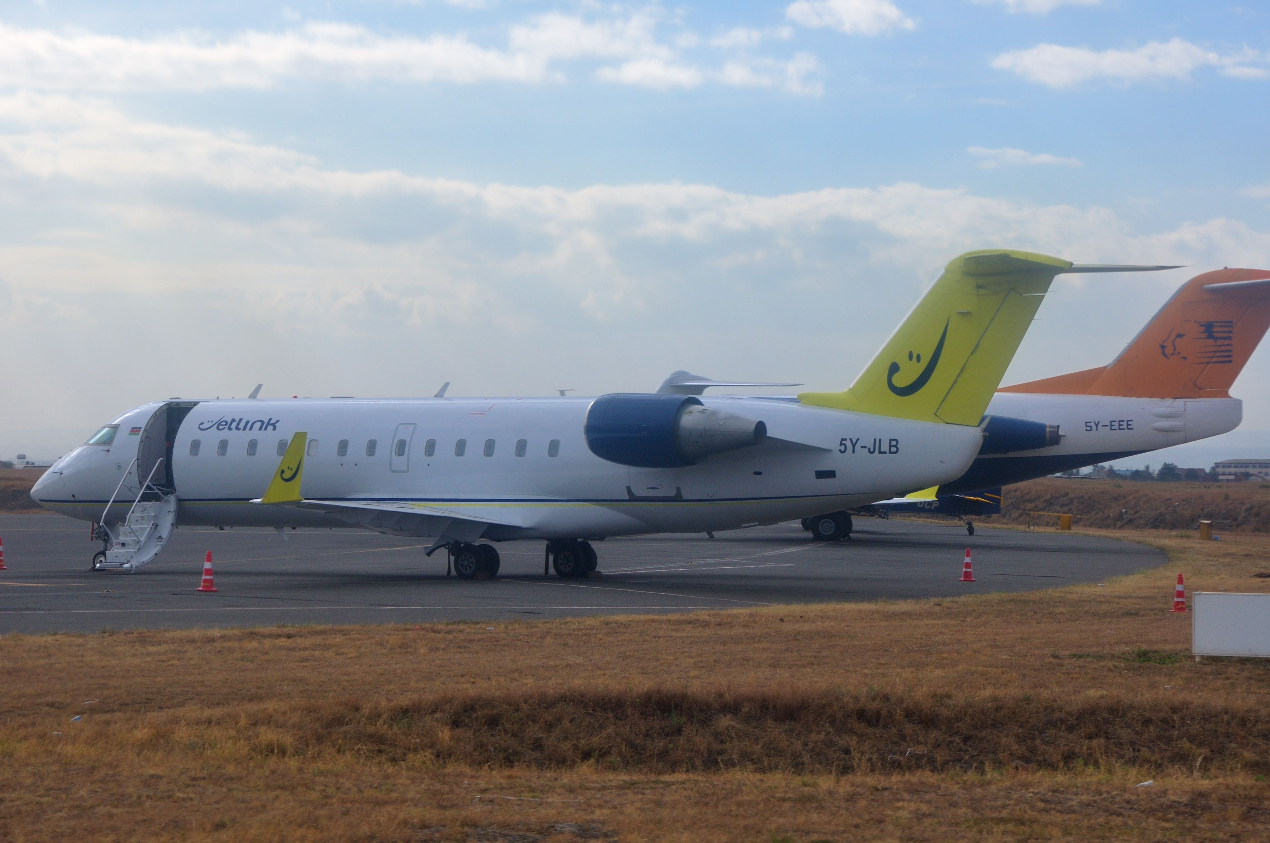 Kenya, Jetlink Express Bombardier CRJ100 (5Y-JLB) parked at Jomo Kenyatta International Airport in Nairobi